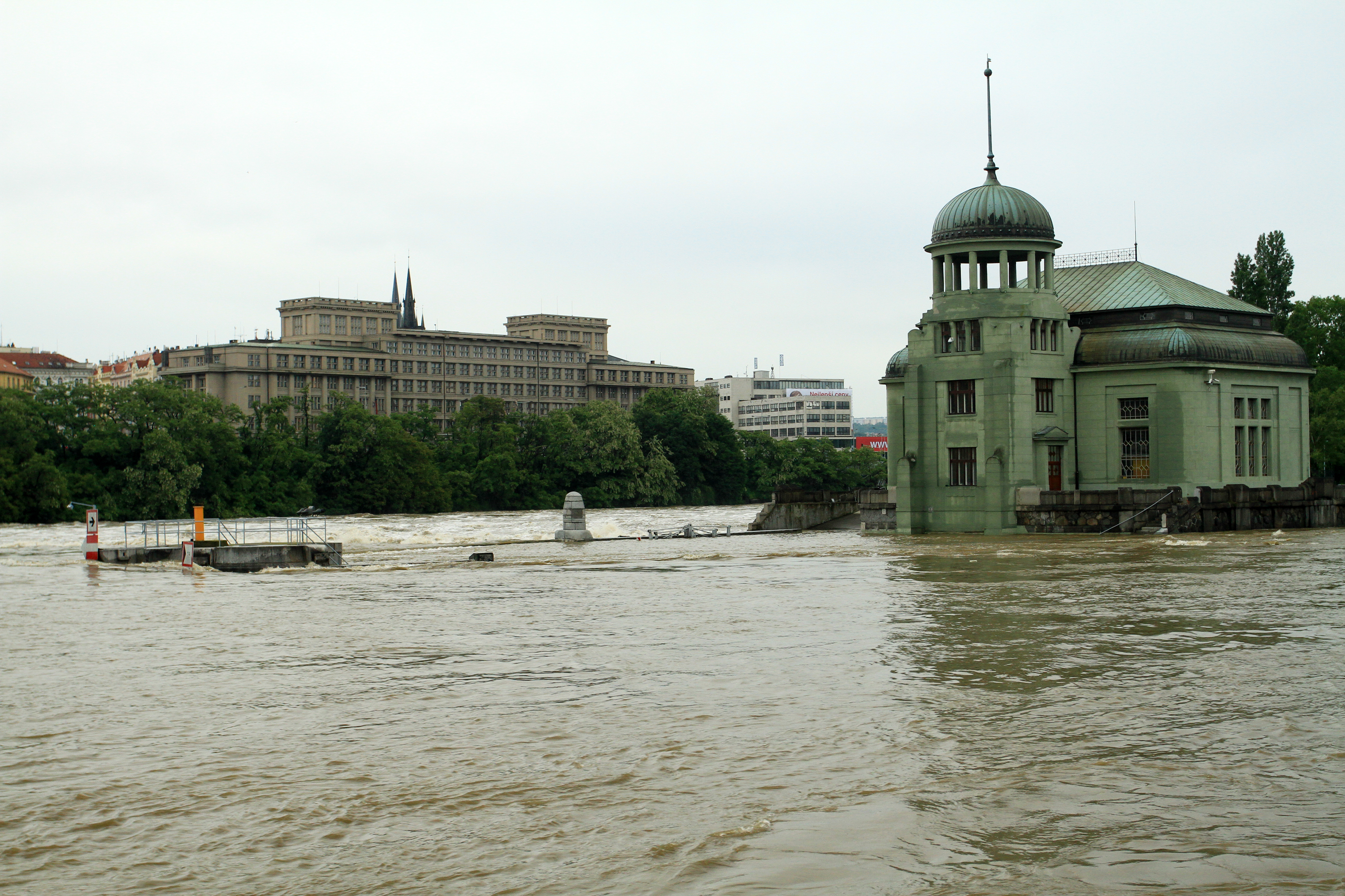 In the foreground, the hydropower plant Štvanice, in the background the former State Planning Commission in the municipality Prague 7 urban district: Holešovice. Today, a seat of the tax authority. Recorded during the floods in 2013 in Prague.